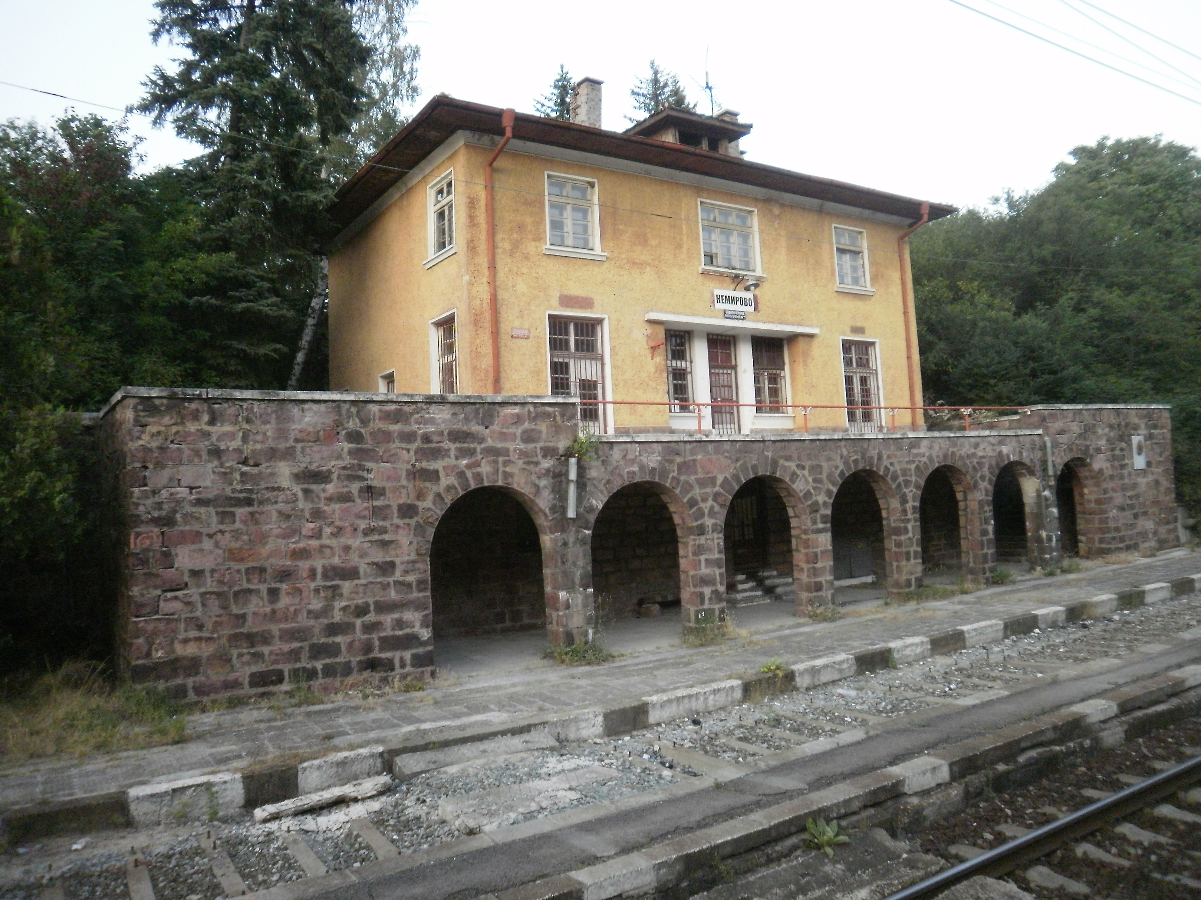 Nemirovo Railway Station, Sofia District, Bulgaria.